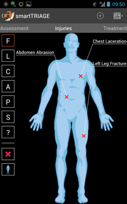 Screenshot of SMART Triage